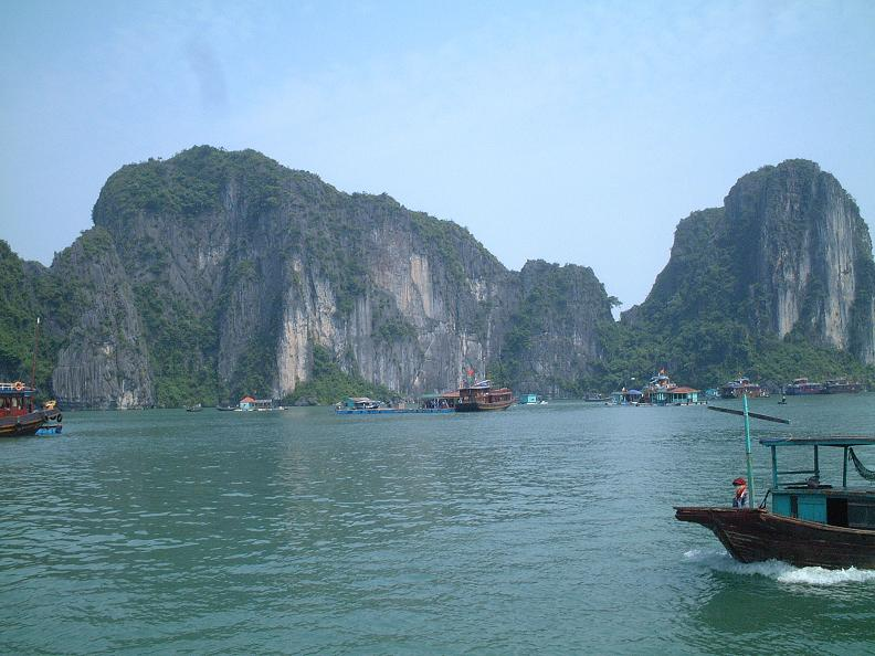 Ha Long Bay